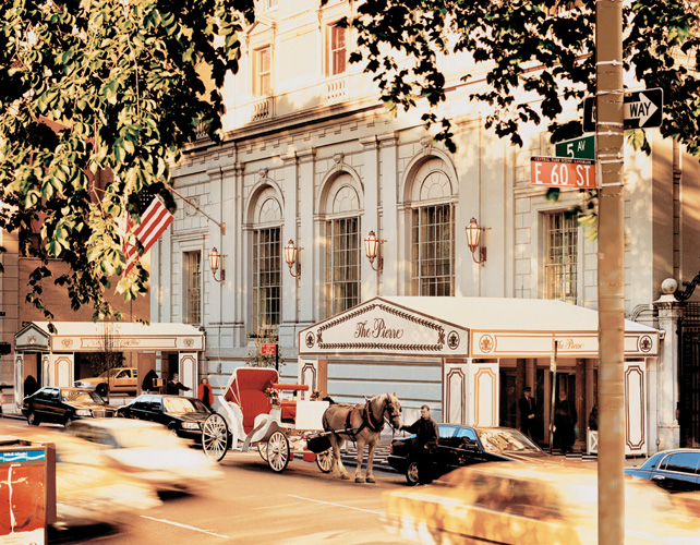 Facade of The Pierre, New York